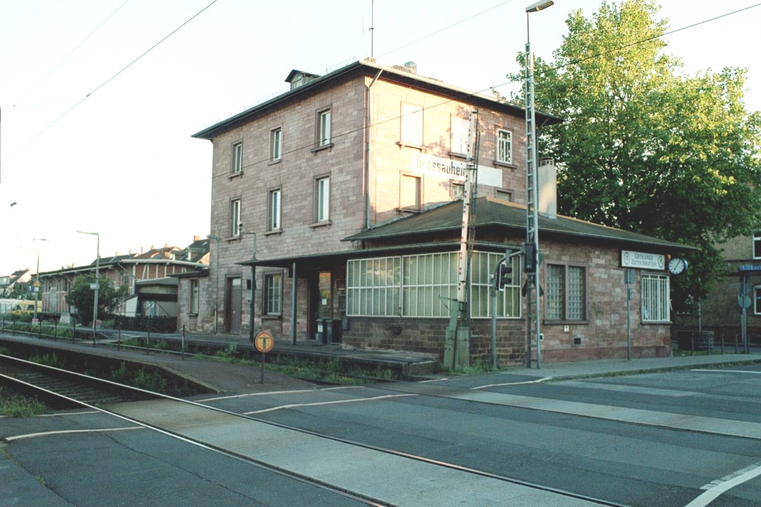 Grossauheim railway station